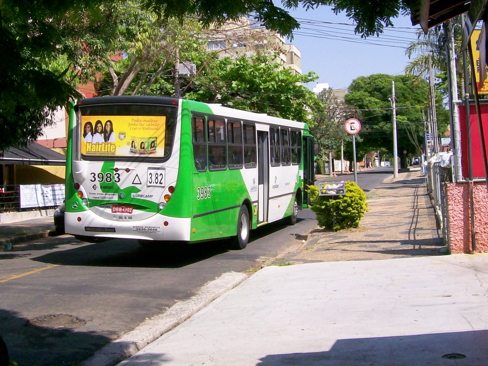 CAIO bus (#3983) with Mercedes-Benz chassis near a bus stop in Campinas, Brazil. Intercamp transport system.